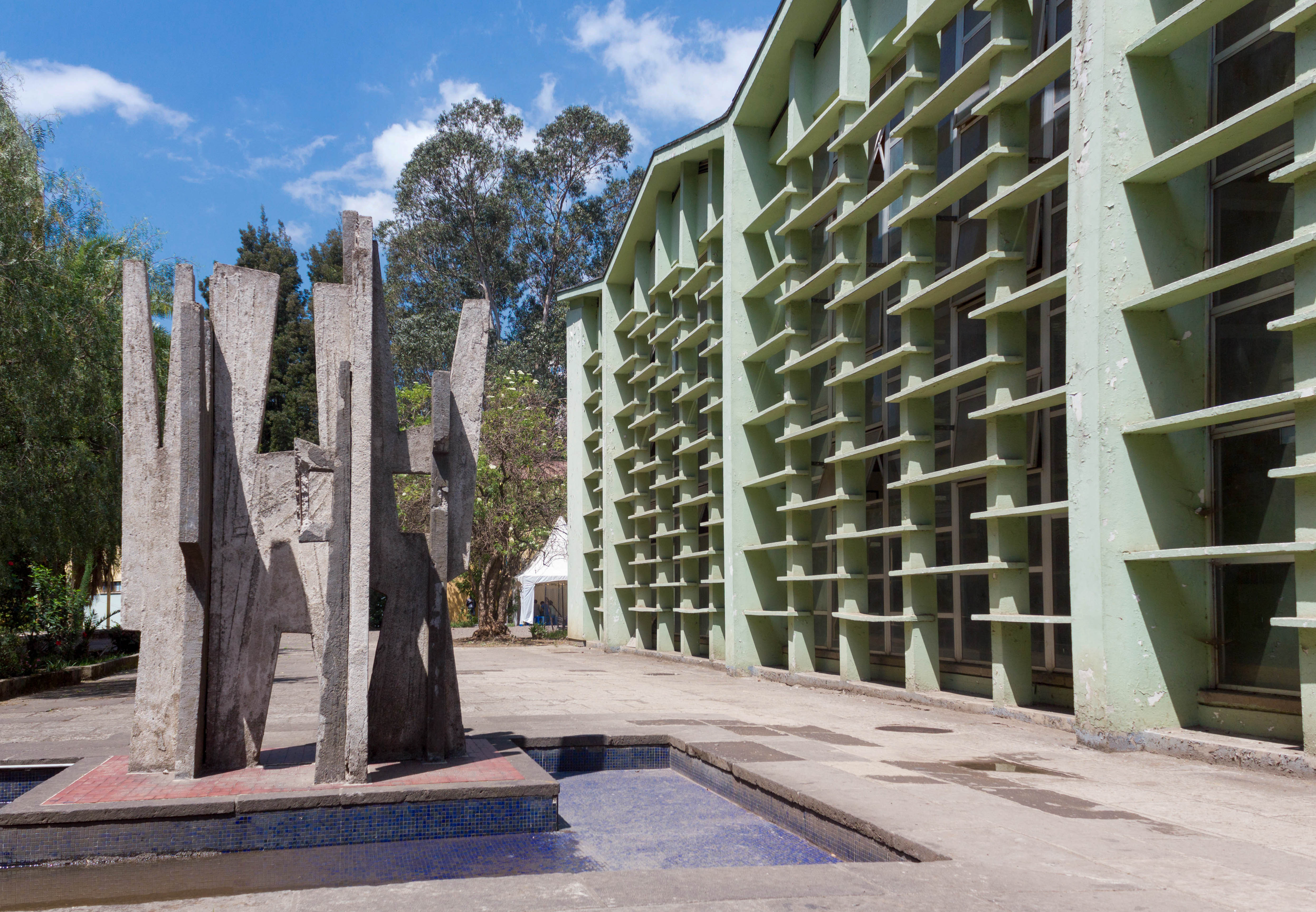 The assembly of buildings found at the current Faculty of Pharmacy was originally built for the German School in Addis Abeba. Construction of the building started in 1957 and was completed in 1961. It was officially opened in 1966 during a visit by the late Emperor Haile Selassie I. The Sports hall and the Assembly hall stand oriented with their front facade to the south. To shade this functions which demand ambient day light and high interaction between the inside and the outside, the southern face of the building is composed of, a double façade system. A curtain wall shaded by horizontal concrete louvers. And the structural columns of the halls also serving as vertical shading elements by the virtue of their 70cm depth. The pattern of the horizontal louvers creates a dynamic visual experience which can also be associated with the function of these halls. A thoughtful integration of the classical and a modern design approach can be witnessed with the combination of the pitched roof and the systematic double façade. The playful rhythm of the louvers is matched with a robust concrete sculpture standing in the court yard of the compound.